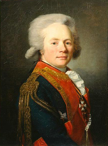 Portrait of Russian Count and military commander Fredrik Vilhelm von Buxhoevden (1750 — 1811) who, among other wars, fought against Sweden 1788-90 and Finnish War 1808-09.